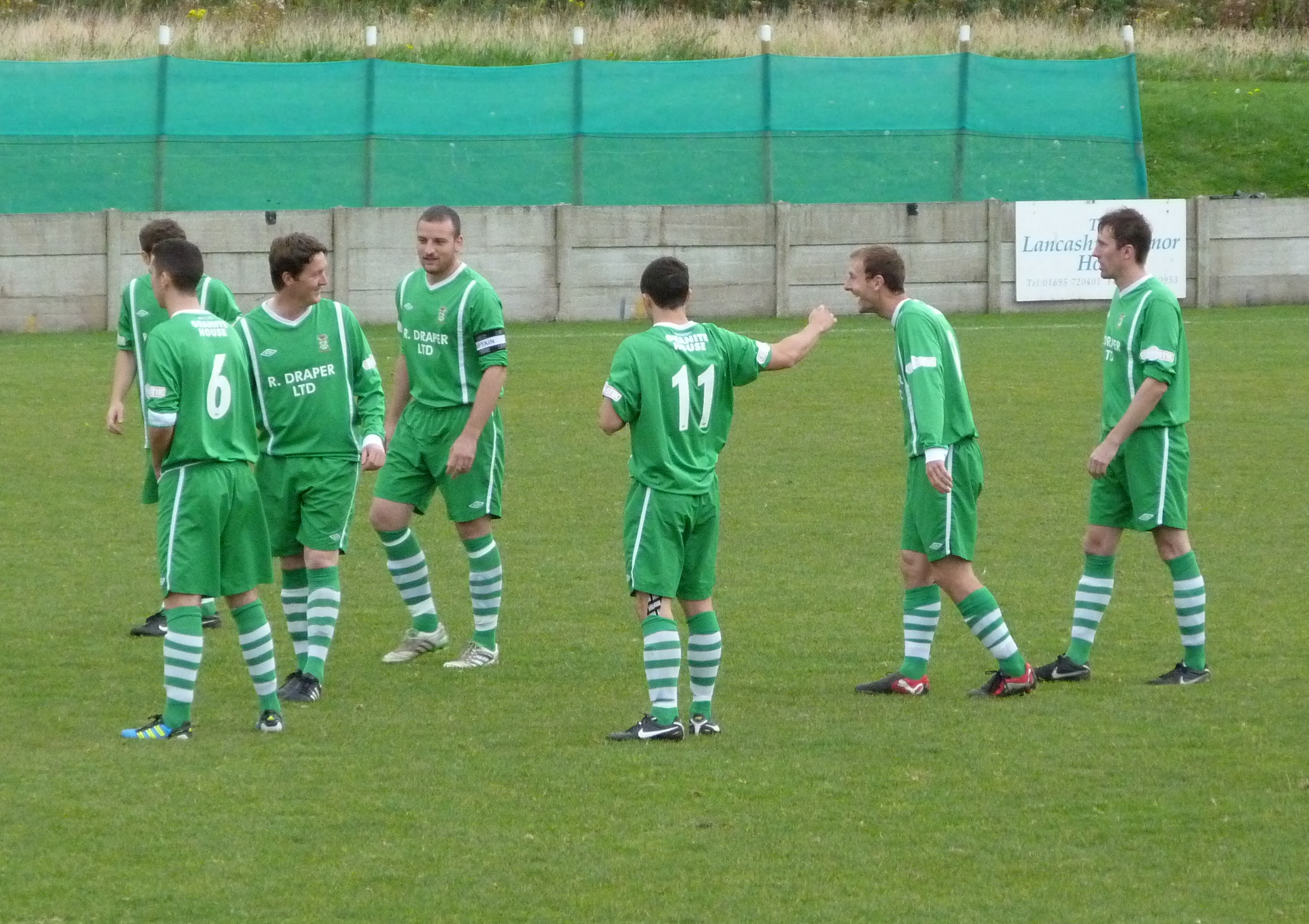 Burscough FC players at Skelmersdale's stadium for a game against FC United of Manchester – 24 September 2011